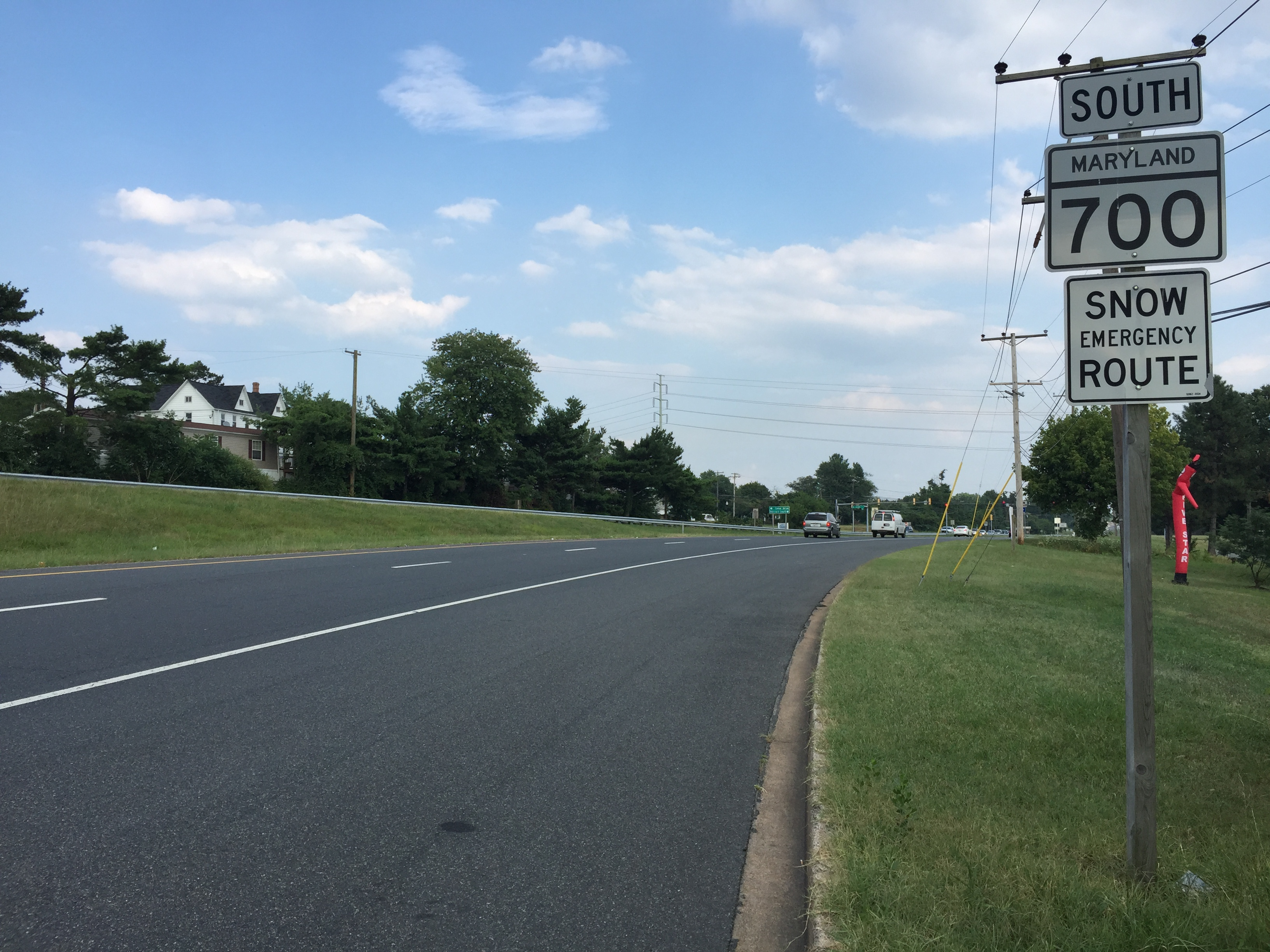 View south along Maryland State Route 700 (Martin Boulevard) just south of U.S. Route 40 (Pulaski Highway) in Middle River, Baltimore County, Maryland